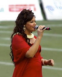 Boise State University vs East Carolina University - Halftime show